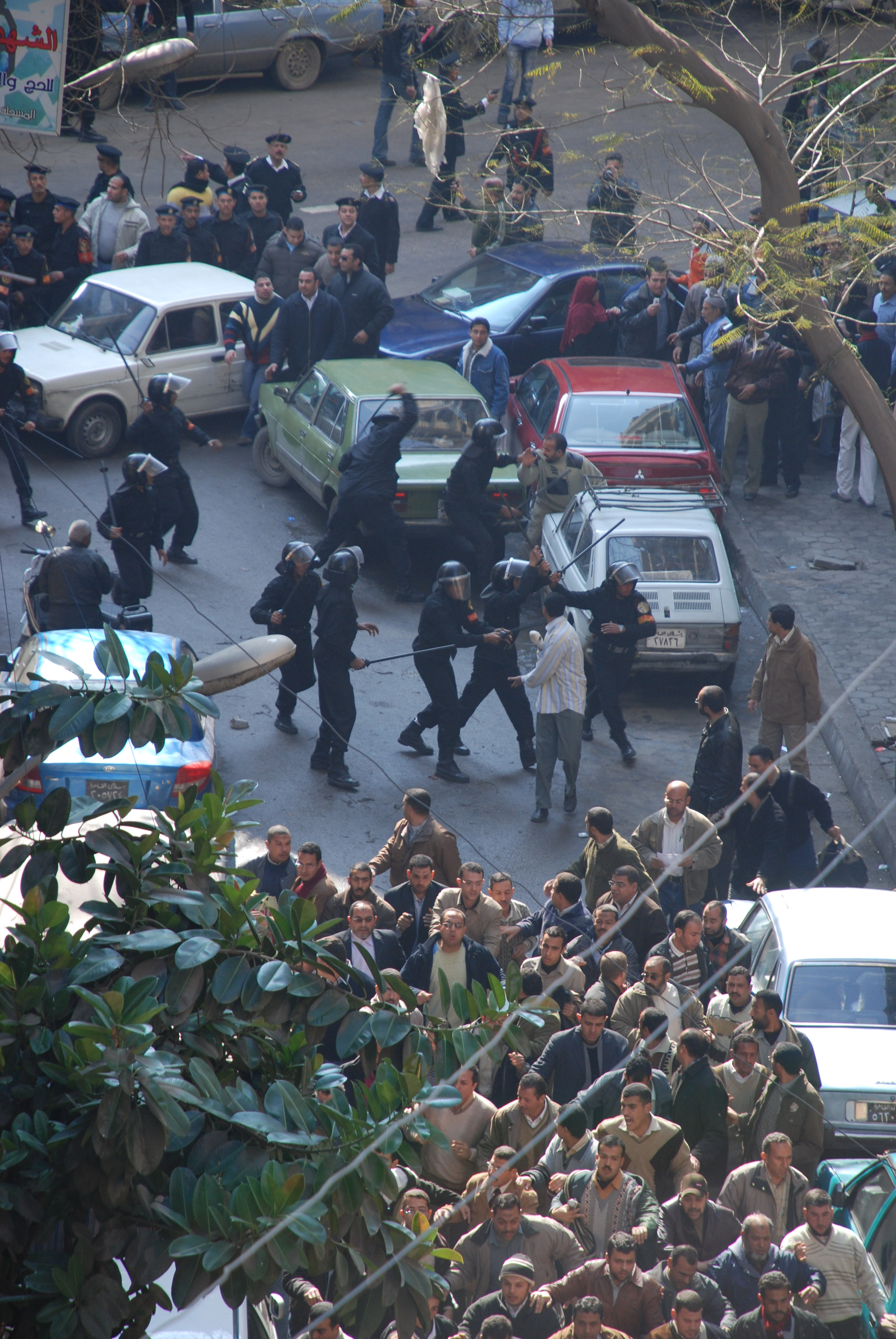 security forces in Cairo disperse protesters using force. Picture was taken in 2008 near Midan Tahrir-Tahrir Square.